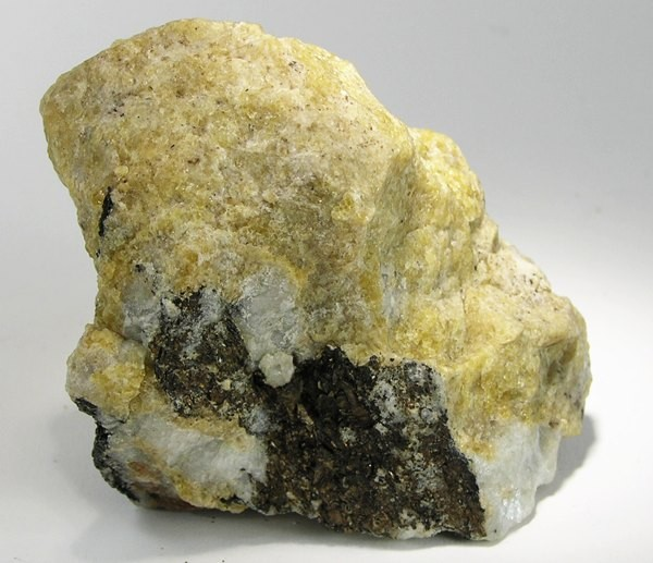 Cancrinite, Sodalite, Nepheline Locality: Dennis Hill locality (Litchfield sodalite locality), Litchfield, Kennebec County, Maine, USA (Locality at ) Size: 6.2 x 5.5 x 4.8 cm. Yellow cancrinite with platy, purplish/blackish/bronzish biotite and white nepheline.